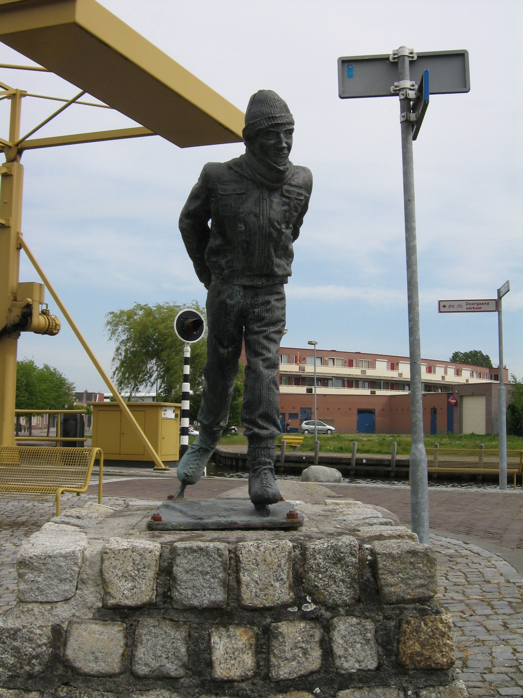 Statue of "t Scheuvellopertje" (skate rider) in Scheemda, the Netherlands, marking start and finish of the "Oldambtrit" skating race.